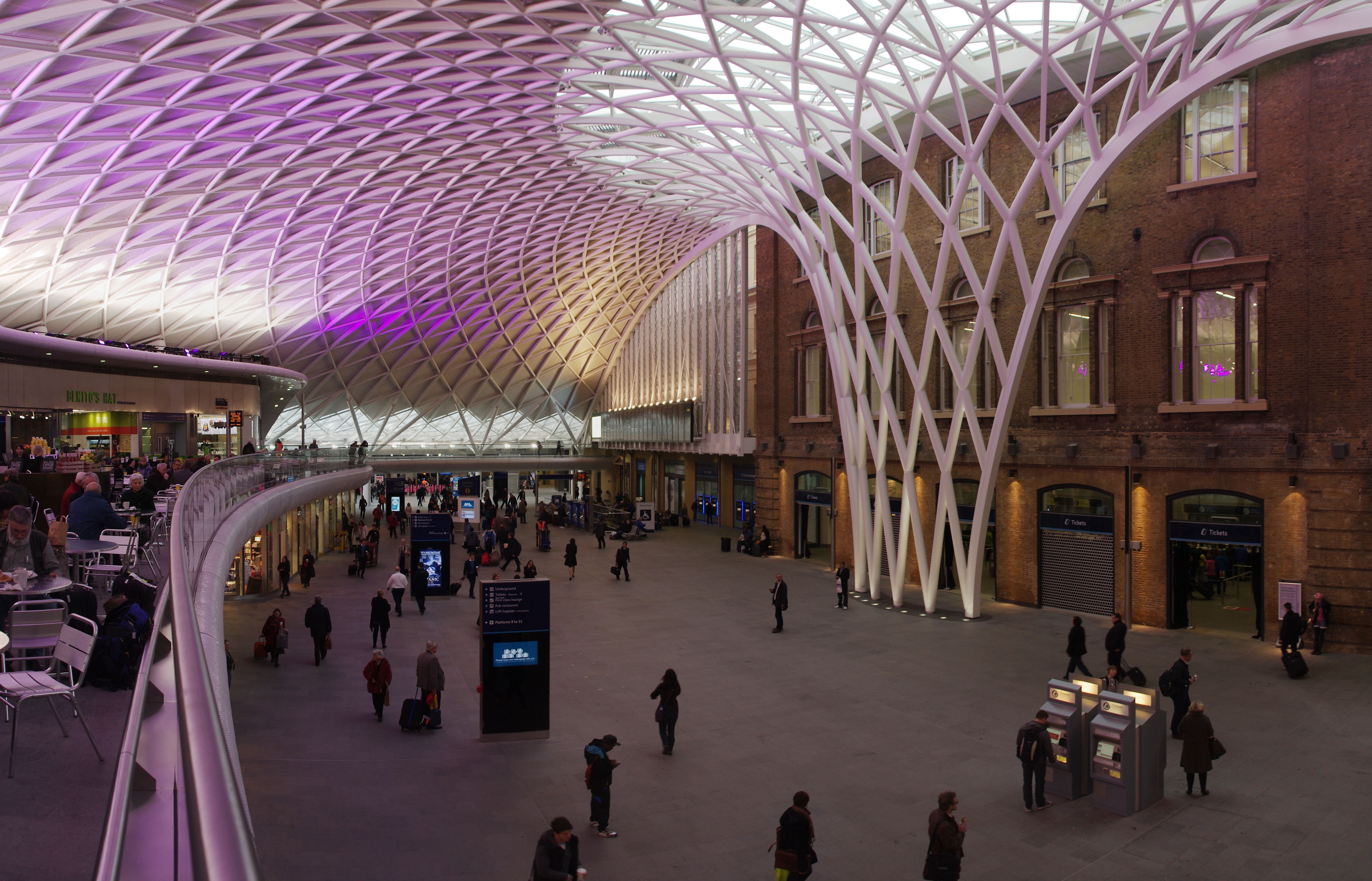 Panorama from the balcony of the new western concourse at King's Cross railway station.